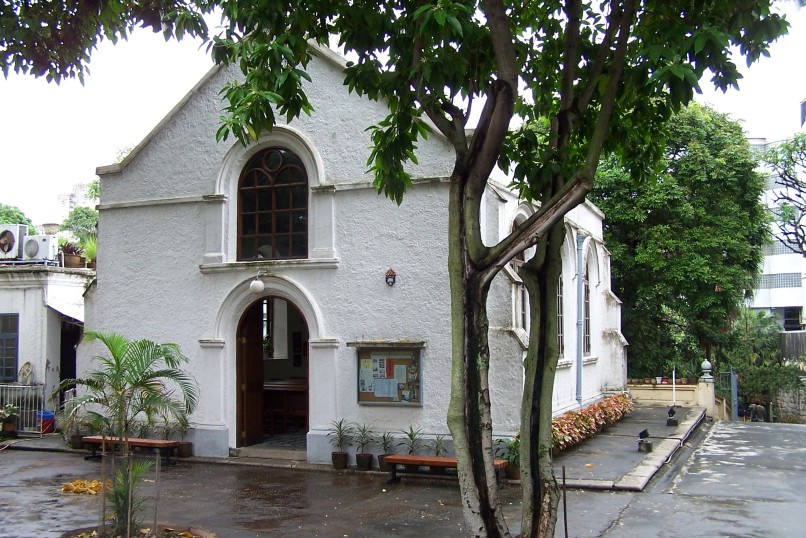 Macau Protestant Chapel, also known as Morrison Chapel, on the grounds of the Old Protestant Cemetery in Macau.